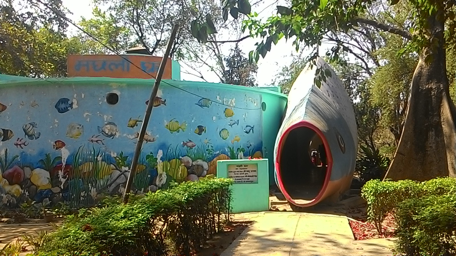 Machli Ghar at Patna zoo